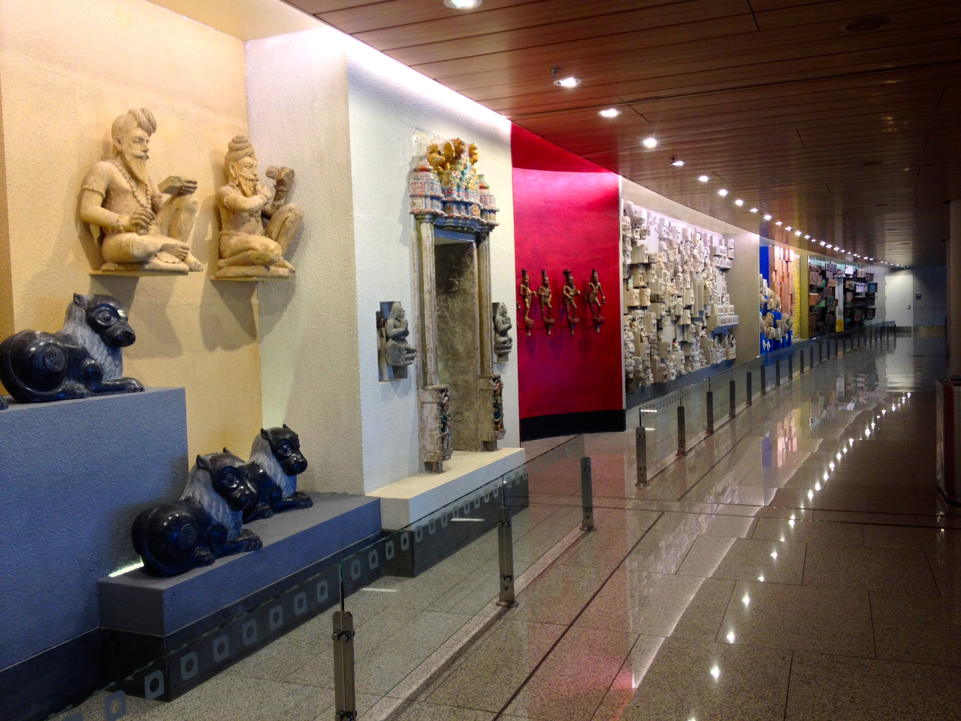 Works of art displayed along a wall at Mumbai Airport